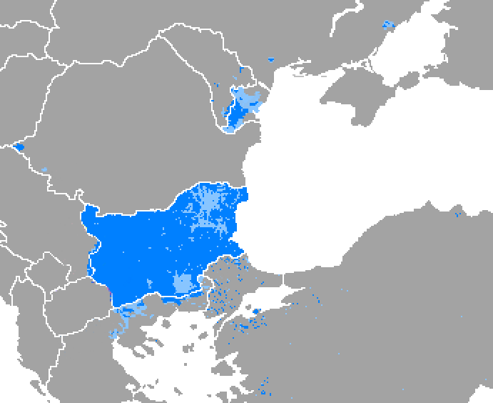 Distribution of Bulgarian speakers in the Balkans and surrounding areas